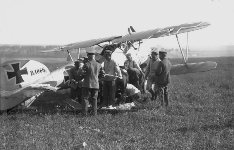 a wounded pilot is hault out of a german Albatros D III or DV fighteraircraft